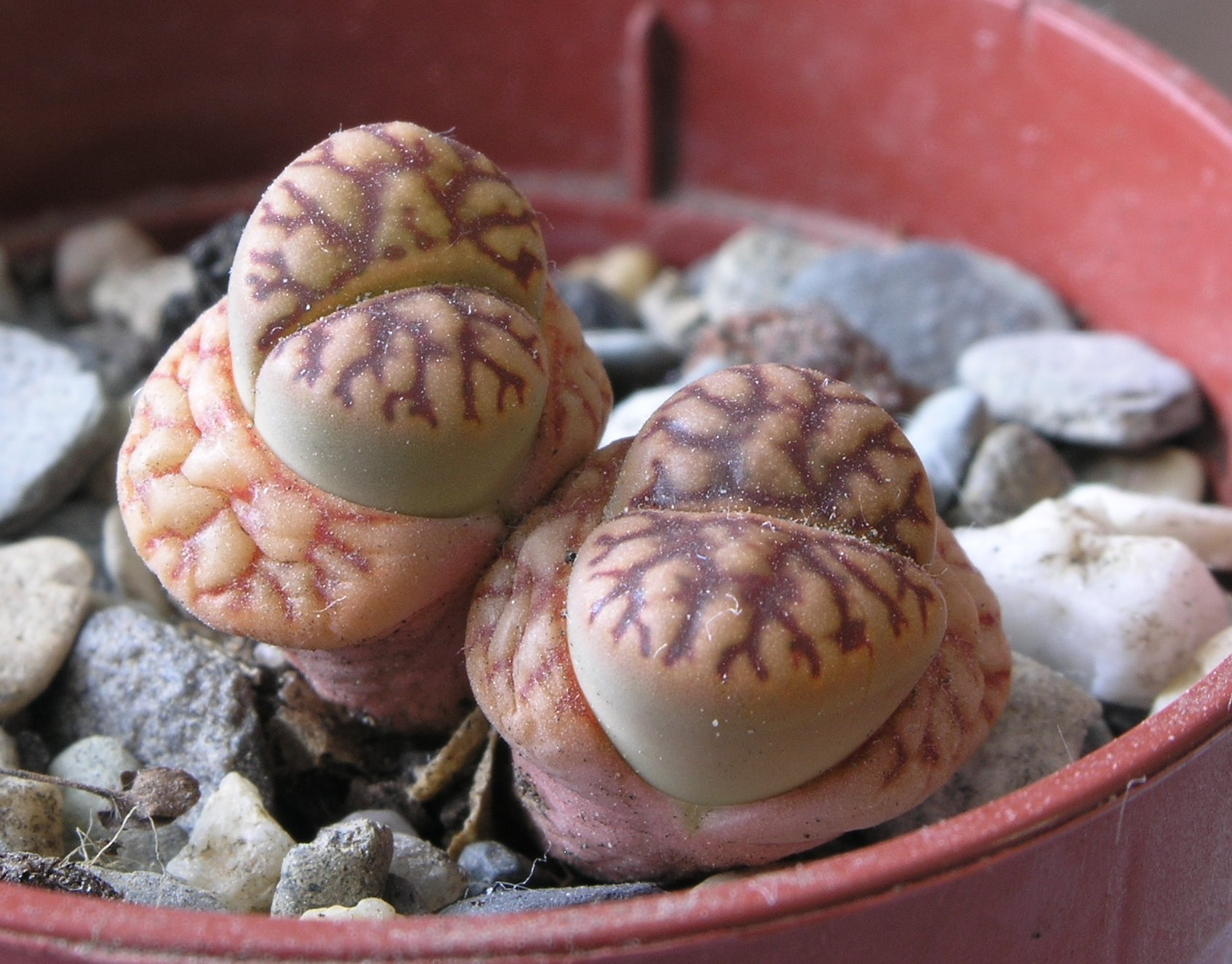 Lithops bromfieldii (plant collection of Ivan I. Boldyrev, Berdsk, Russia)